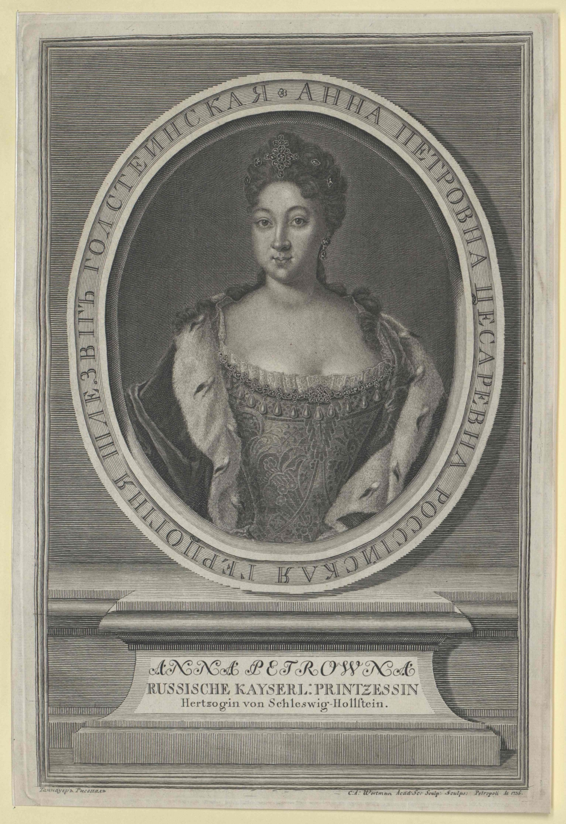 Portrait of Anna Petrovna of Russia (1708-1728)